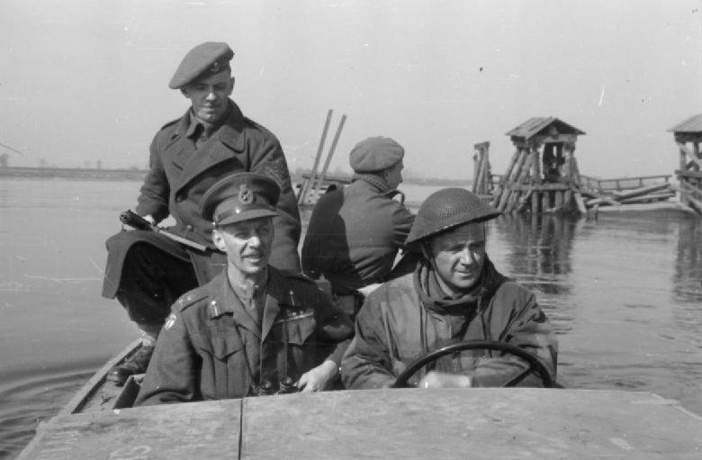 THE BRITISH ARMY IN NORTH-WEST EUROPE 1944-45. General Dempsey crossing the Rhine in a small boat.